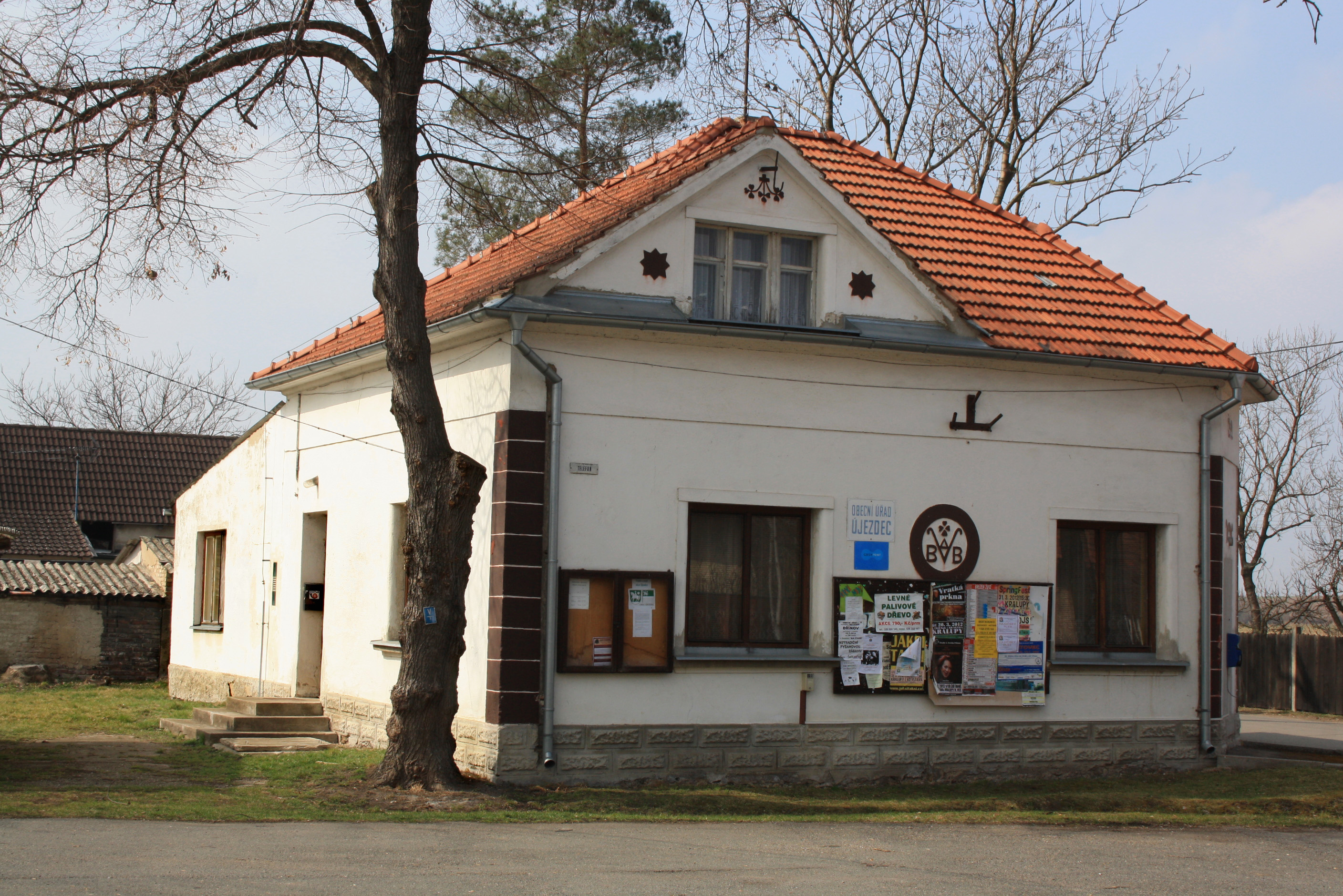 Municipal office in Újezdec, Czech Republic